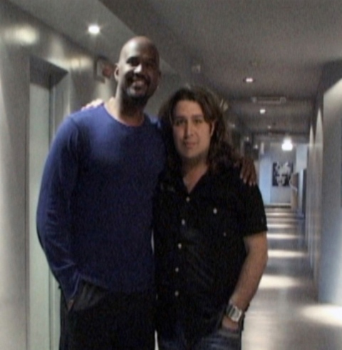 Davi Wornel with Claude McKnight (Lead Singer Take Six)